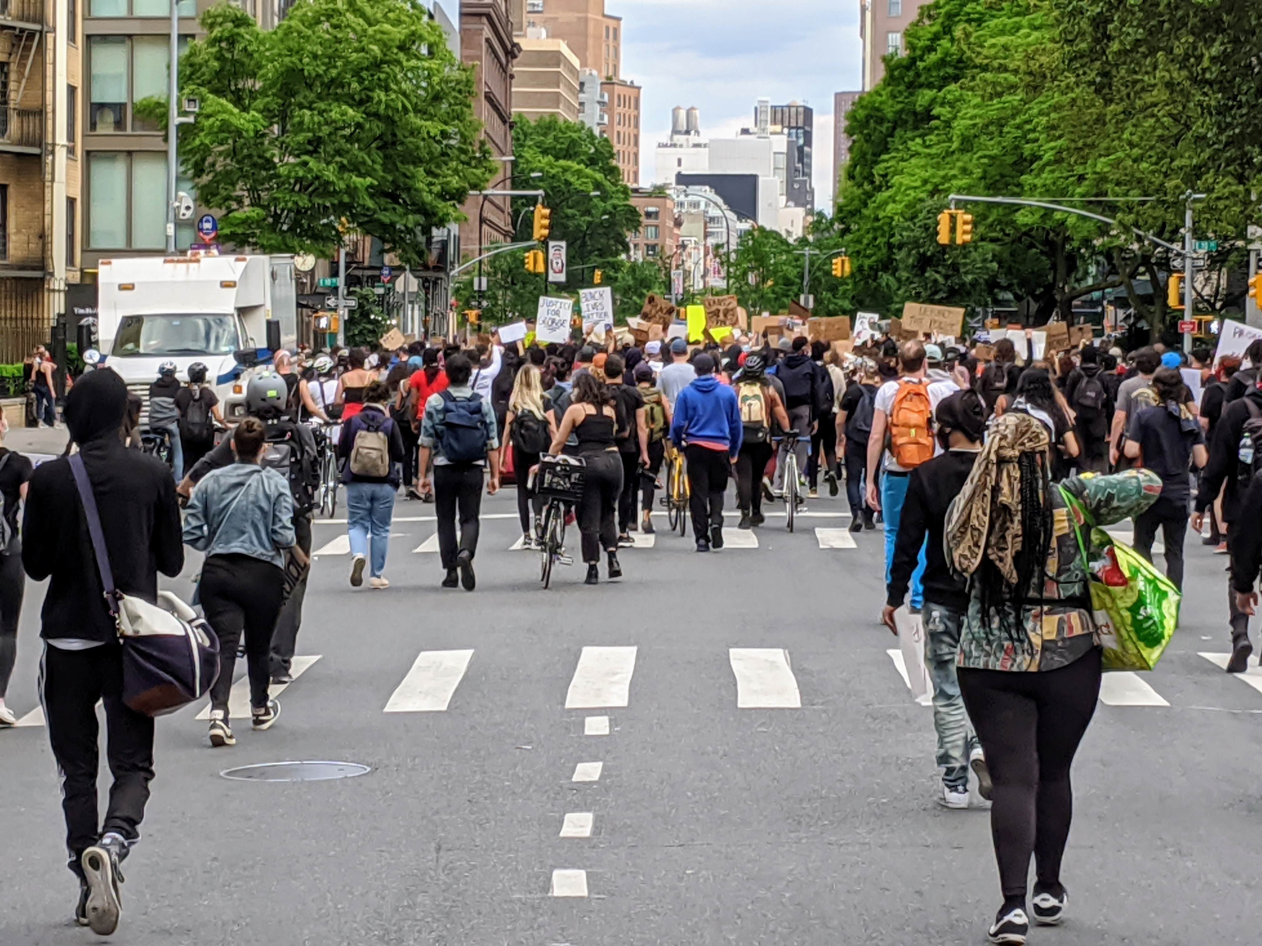 Marching on Astor Place